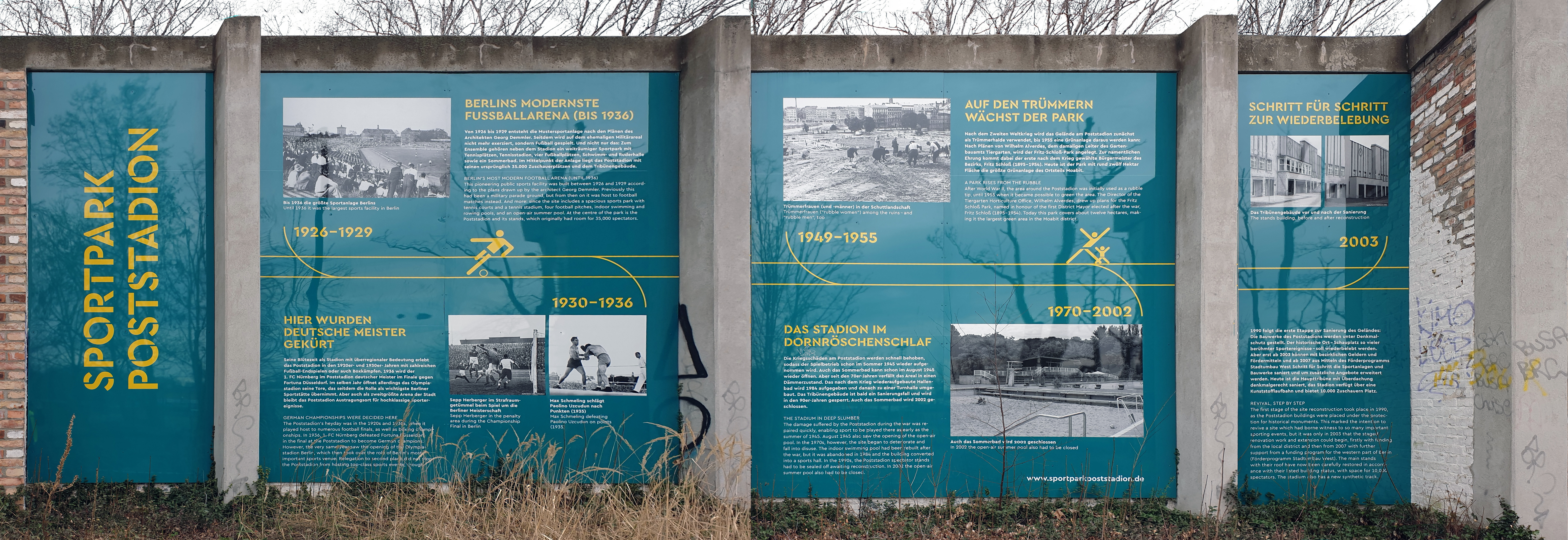 Memorial plaque, Poststadion, Lehrter Straße 59, Berlin-Moabit, Deutschland